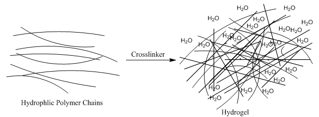 Polymer chains may be crosslinked in the presence of water to form a hydrogel. Water occupies voids in the network, giving the hydrogel its characteristic surface properties